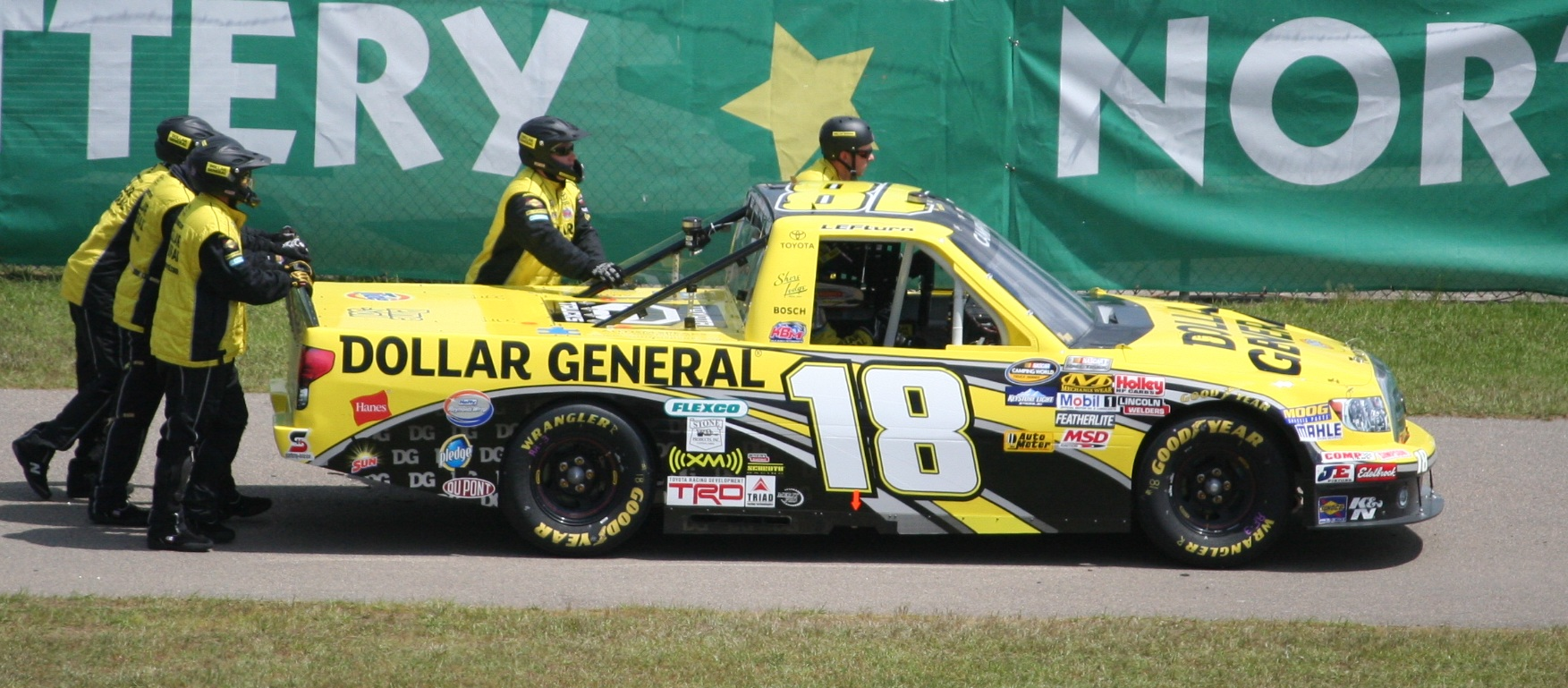 Jason Leffler's No. 18 Toyota had trouble during the Good Sam Carolina 200 at Rockingham Speedway on April 15, 2012